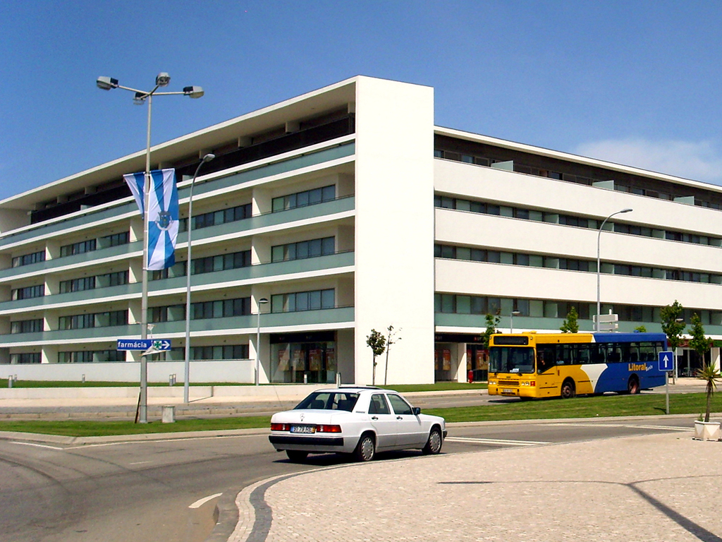 Póvoa de Varzim urban bus in Avenida 25 de Abril avenue.